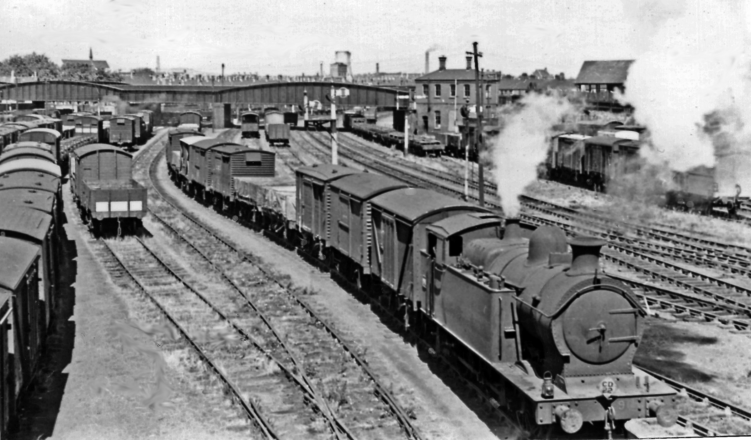 Goods train for Roath Docks on Cardiff & Rhymney line, with 0-6-0T. View NE, near Newtown Goods and Newtown East Junction, with the ex-GW main line behind, eastward of Cardiff General. This is a general scene of an area of sidings and Docks that has since been radically redeveloped. The train is heading southward towards Stonefield Junction and Roath Dock. The locomotive is ex-Rhymney Railway class S1 0-6-0T No. 90 (No. 604 until 1947), built 6/20 as Rhymney No. 32, withdrawn 6/54.